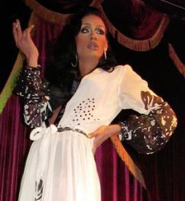 Raja Performing